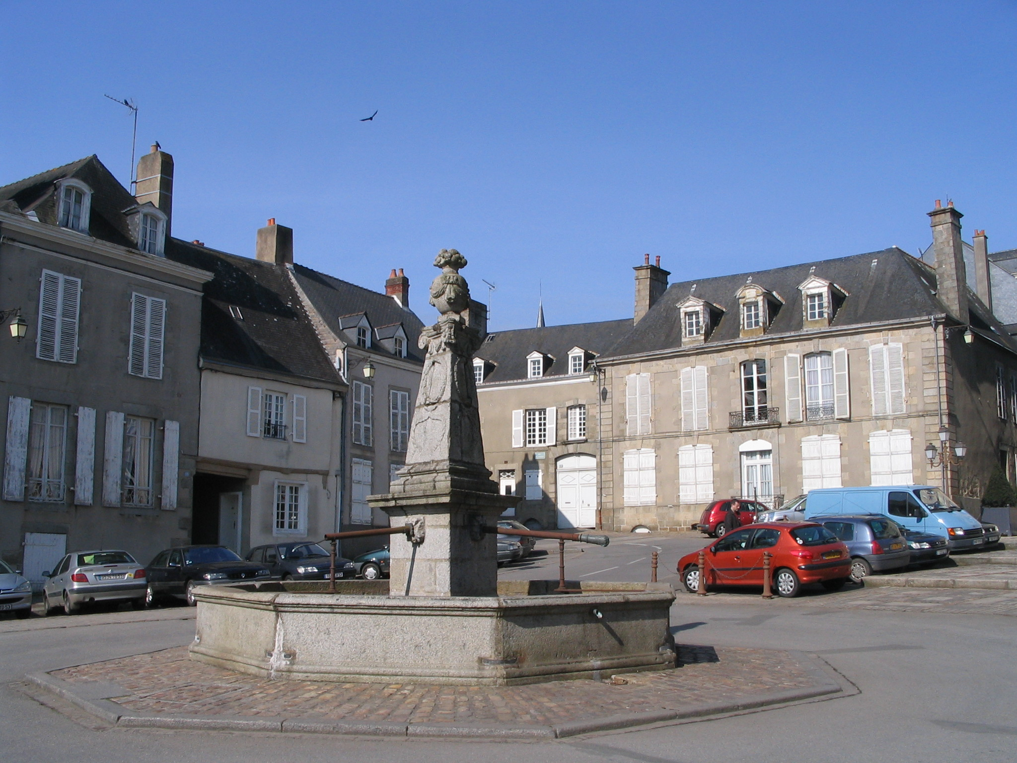 A fountain in Mayenne, Mayenne, France.